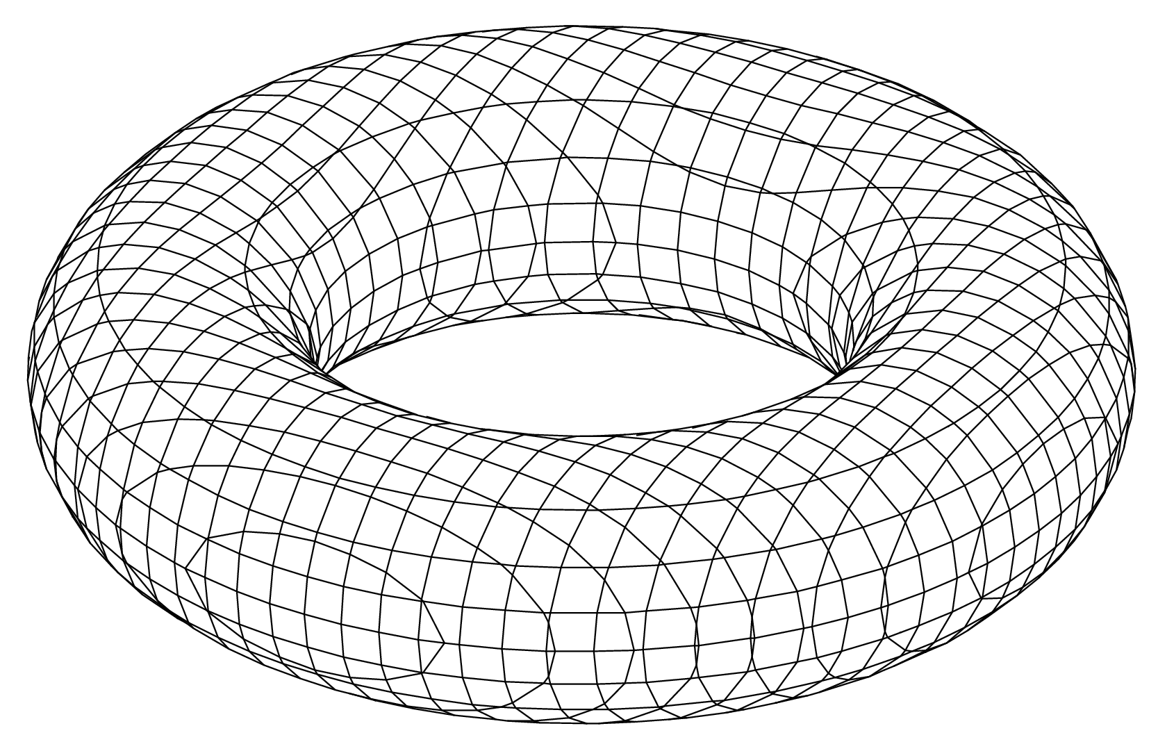 Torus: cutting cube method